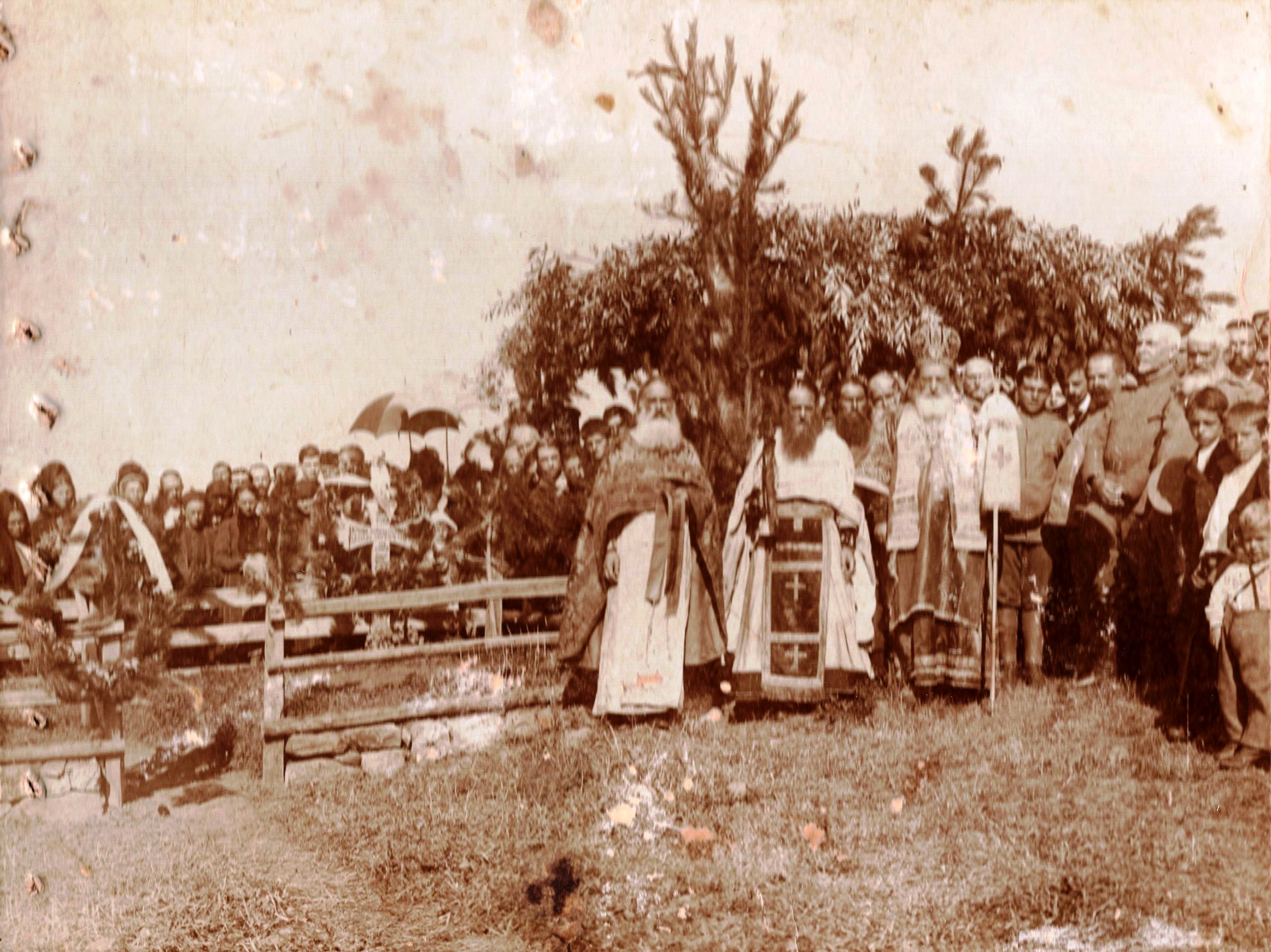 Bishop is visiting Pehčevo, 1912 This media file is produced by Wikipedian in Residence in Category:Wikipedian in Residence at DARM in 2016.